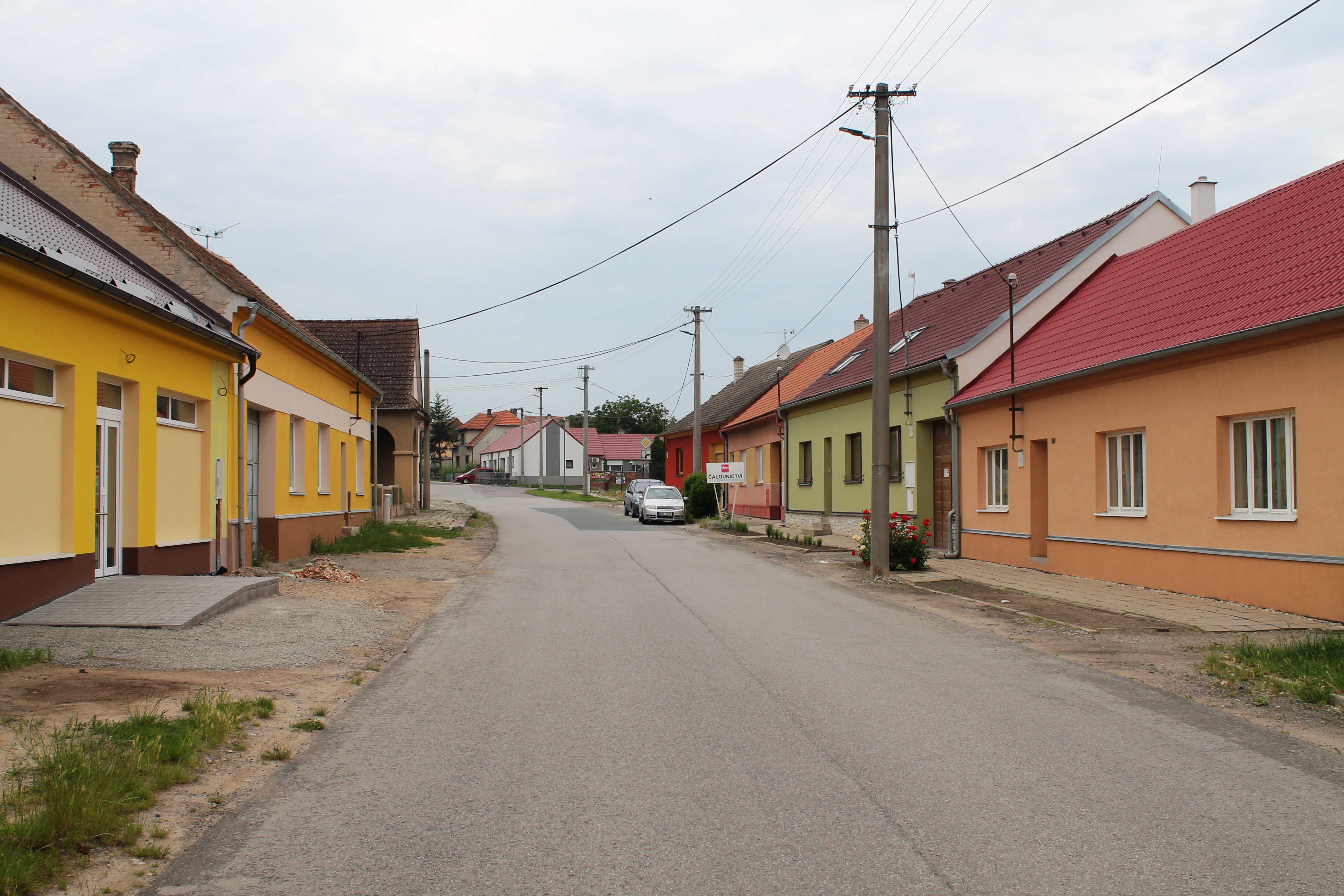 Želovice, Olbramovice, Znojmo District, Czech Republic